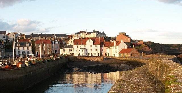 Pittenweem from the outer harbour wall.